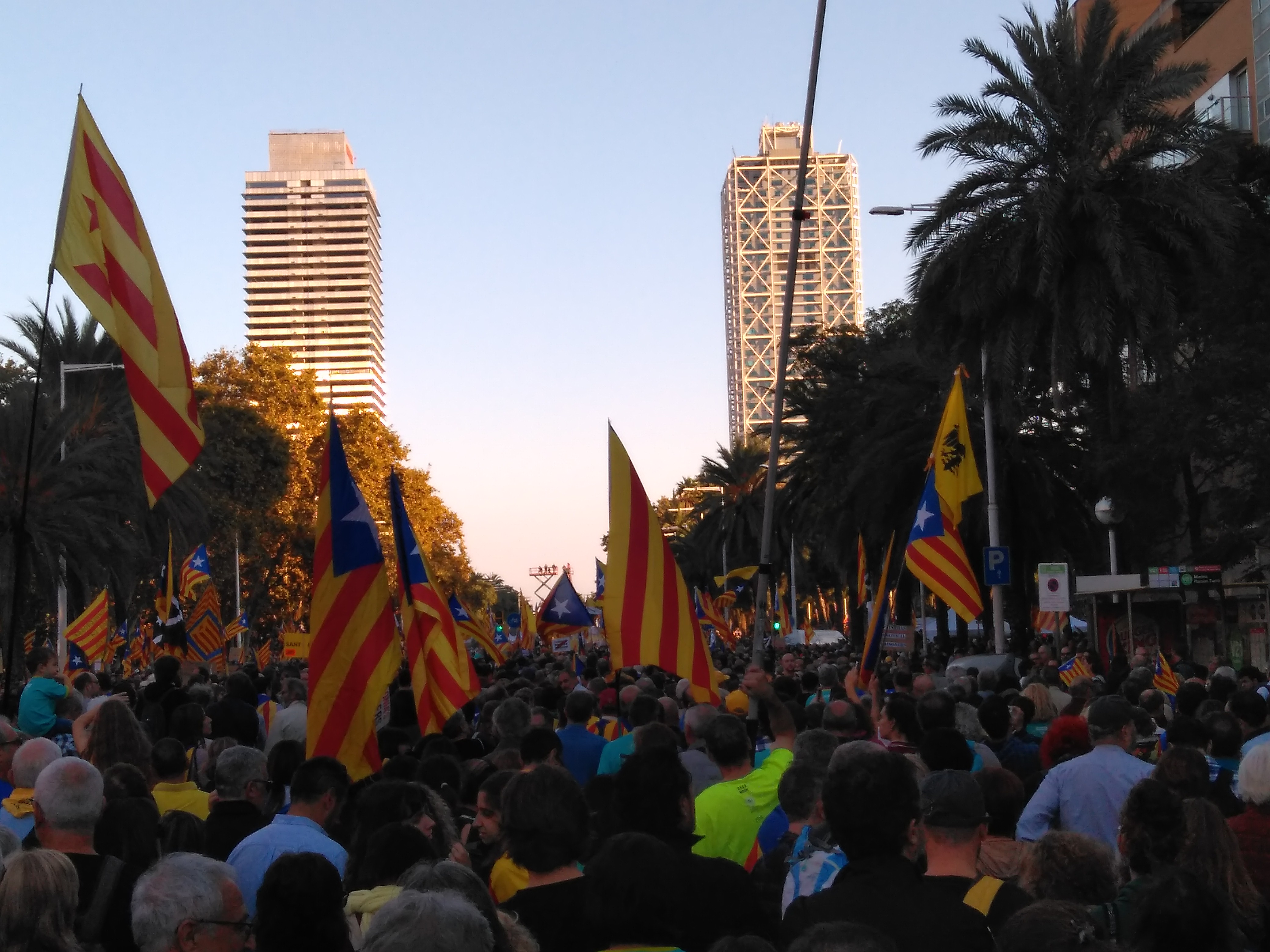 Demonstration in Marina Street in Barcelona with the motto «Freedom»